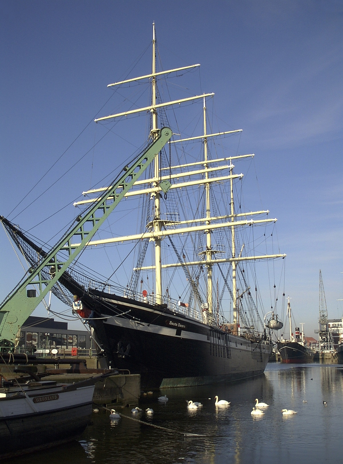 Seute Deern, Bremerhaven